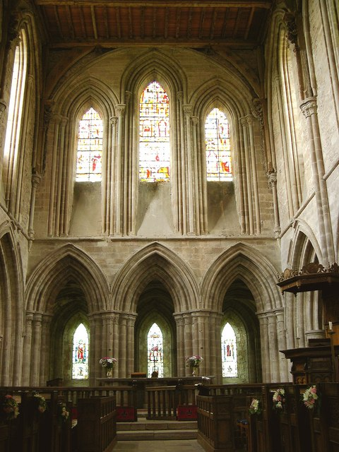 Dore Abbey, East end